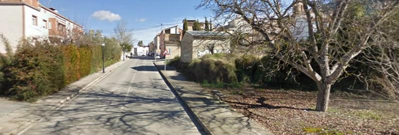 Valencian Road CV-700 in Alfafara (Alicante)